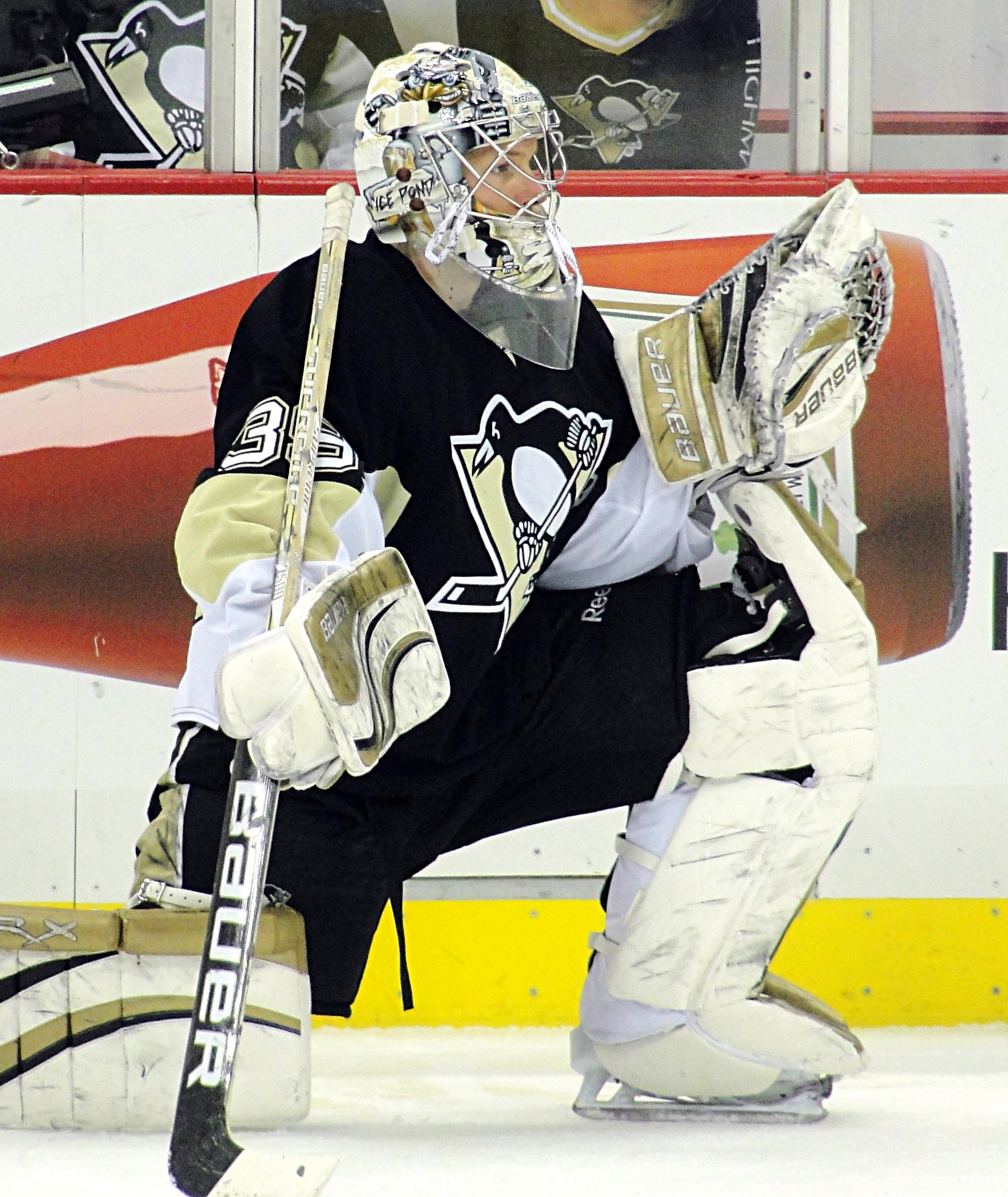 Pittsburgh Penguins backup goaltender Brad Thiessen warms up prior to a February 25, 2012 game against the Tampa Bay Lightning at Consol Energy Center in Pittsburgh, PA.